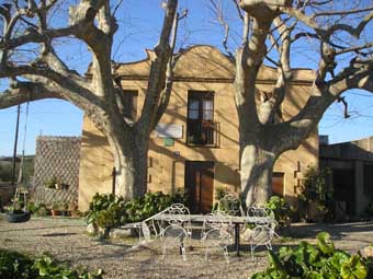 This is the "Mas de la Calderera", in Riudoms (Baix Camp, Catalunya), the country house where the architect Antoni Gaudí i Cornet was born.